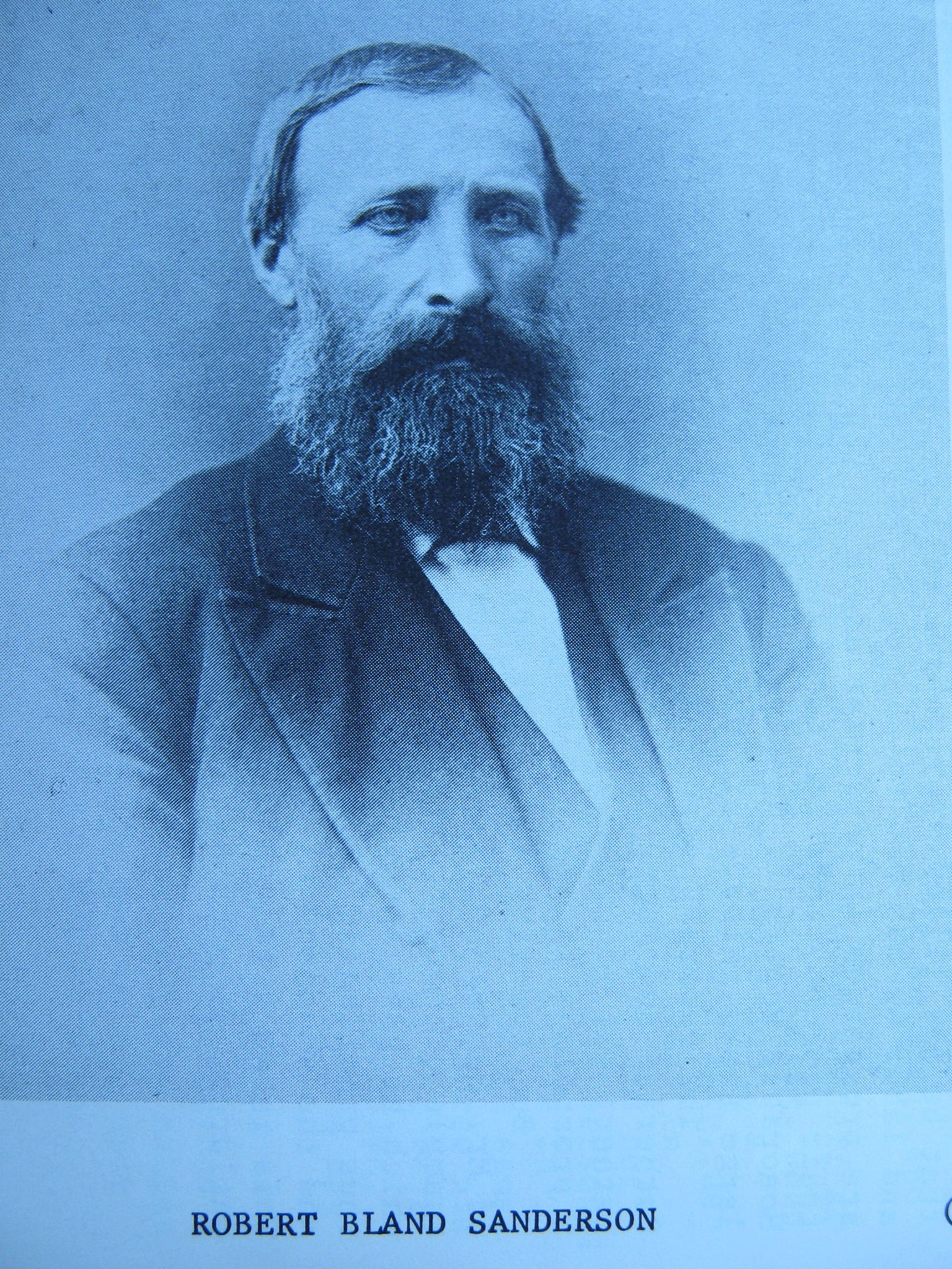 Hon. Robert Bland Sanderson, born 1825 Slaidburn, and died 18 June 1887 San Angelo, Texas. He was a Senator for the State of Wisconsin as well as one of the Regents of the University of Wisconsin.